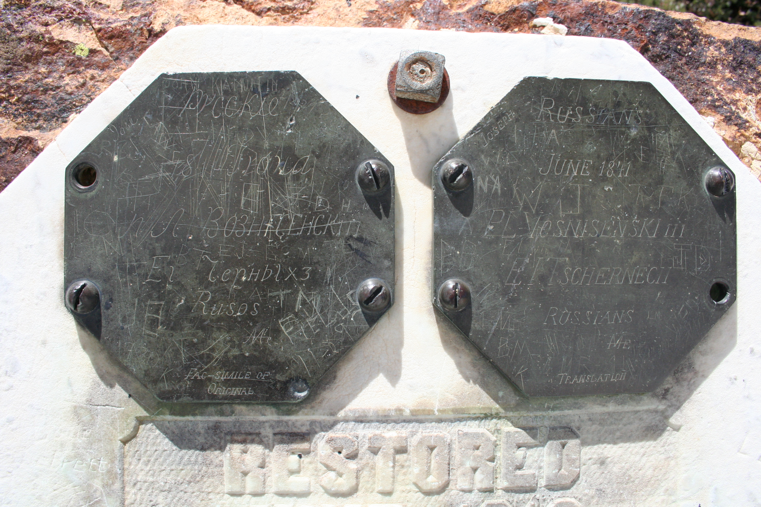 Plaque (copy) left by Russians on Mount St. Helena